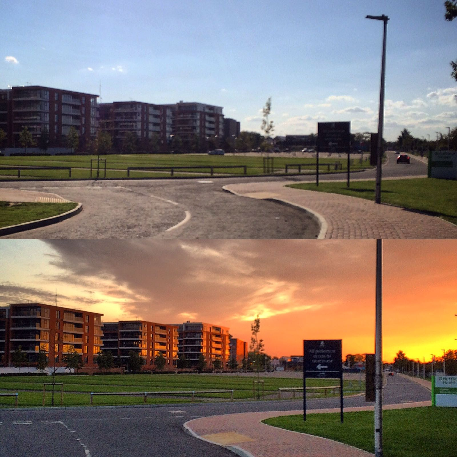 Comparison of the golden hour vs normal daylight